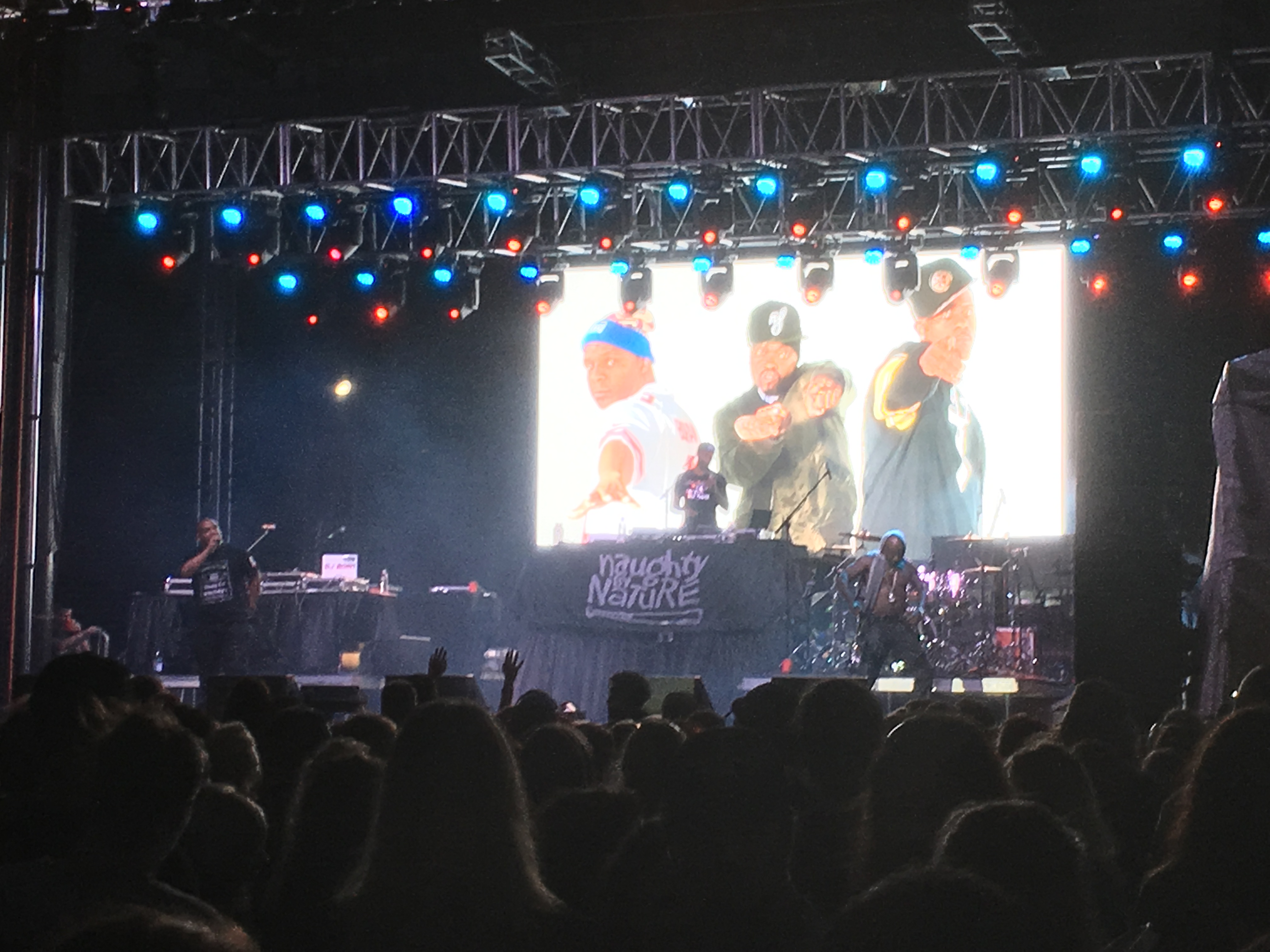 Naughty by Nature performing in Akron at InfoCision Stadium